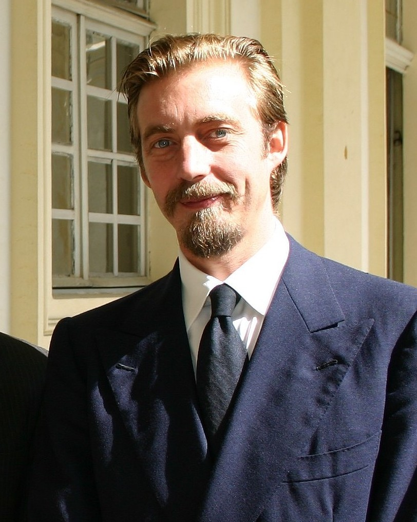 His Royal Highness Prince Aimone of Savoy, Duke of Apulia.